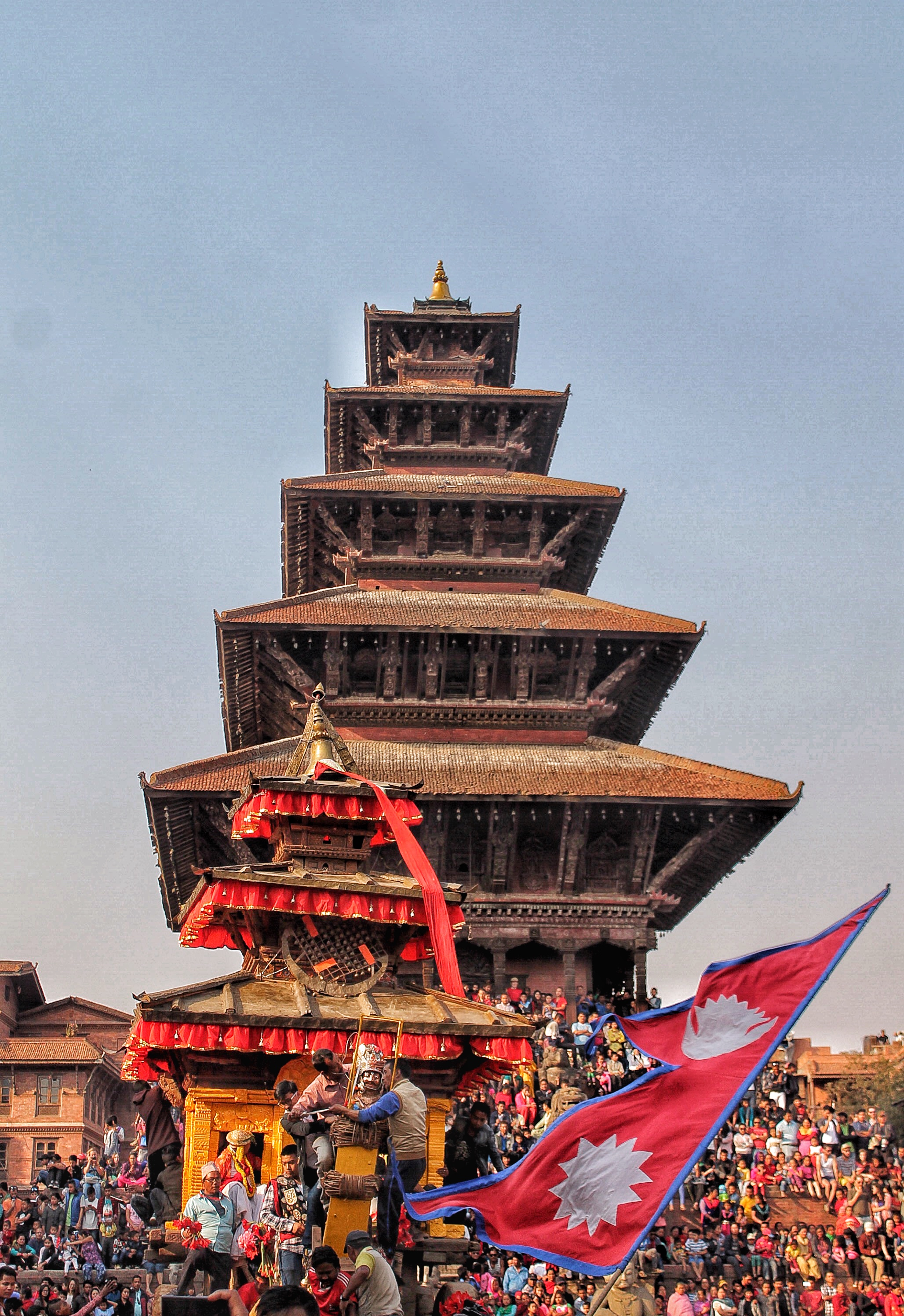 Preparation for the biggest festival celebrated in the Bhaktapur town to mark the end of the year and welcoming the new year with the processions of chariot pulling of God Bhairabh and Goddess Bhadrakali